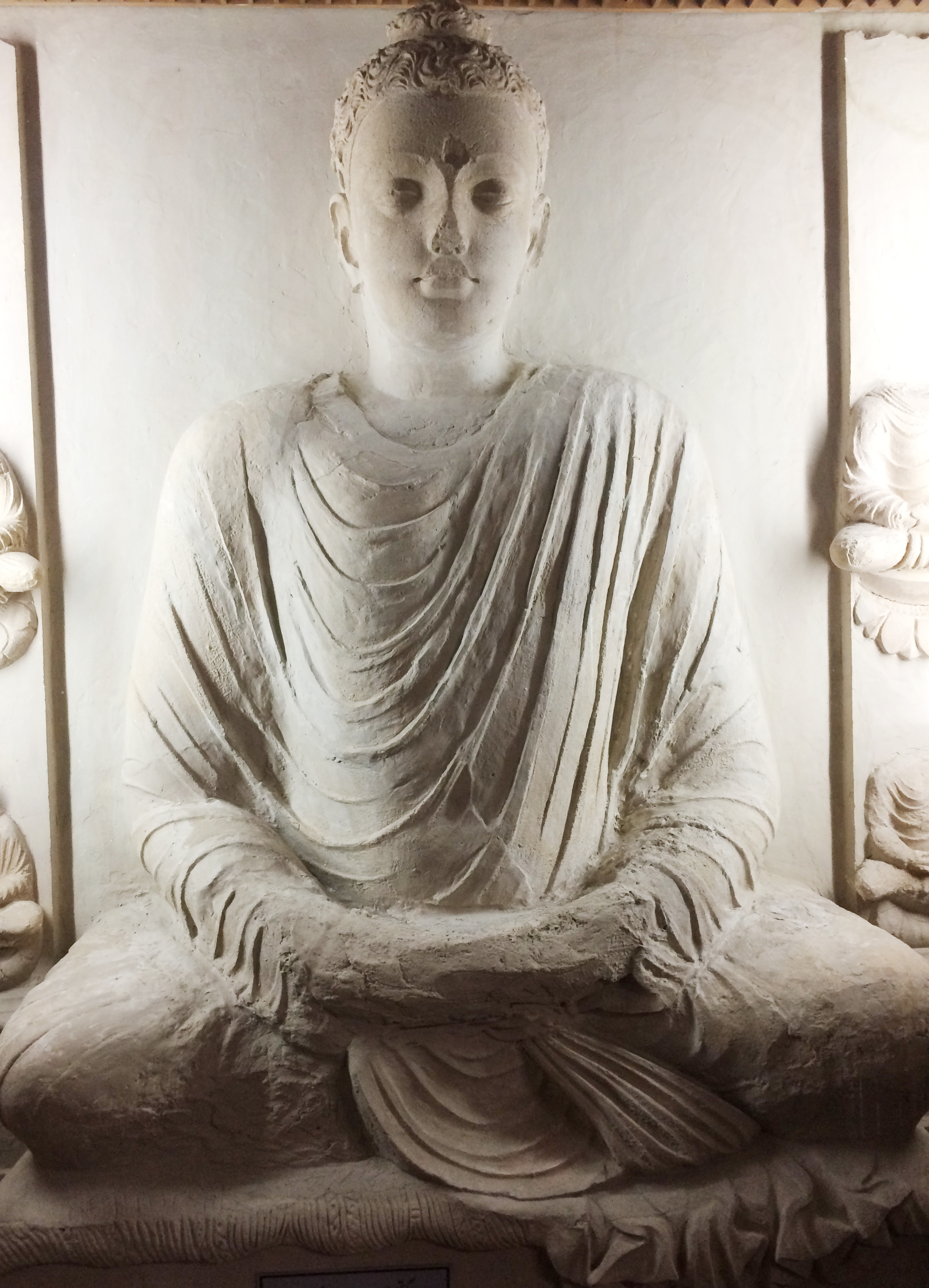 4th Century Meditating Budhaat from Gandhara Civilization Taxila Museum Pakistan